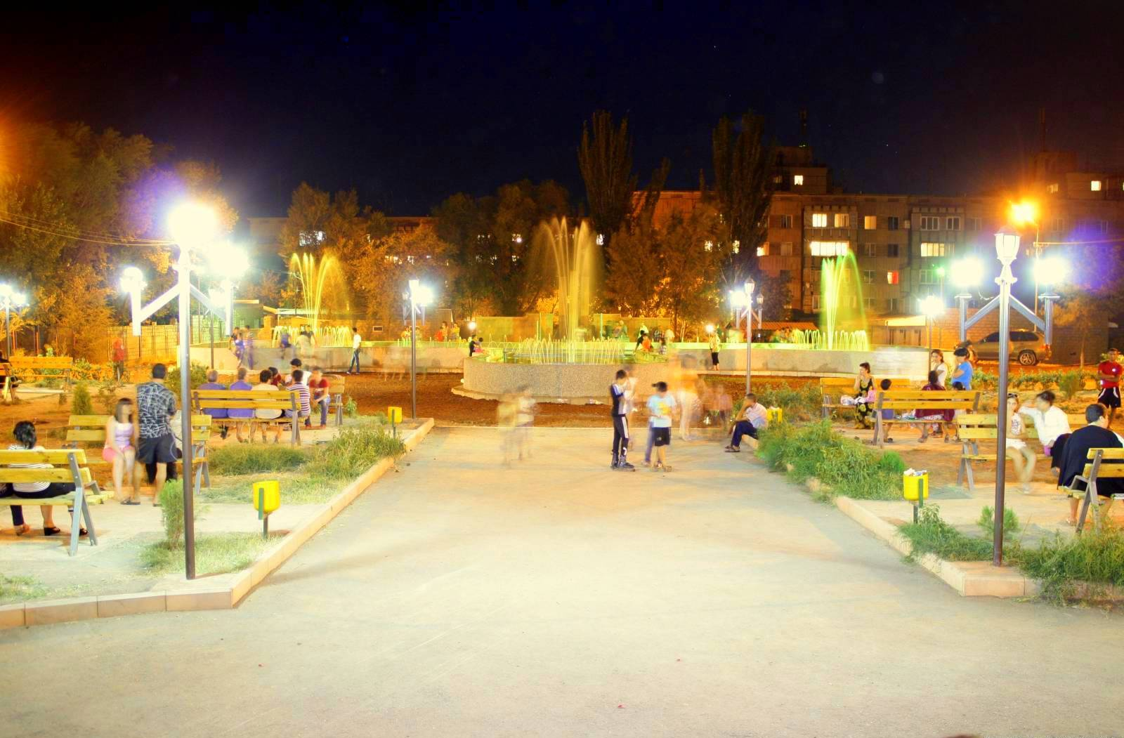 Metsamor park at night